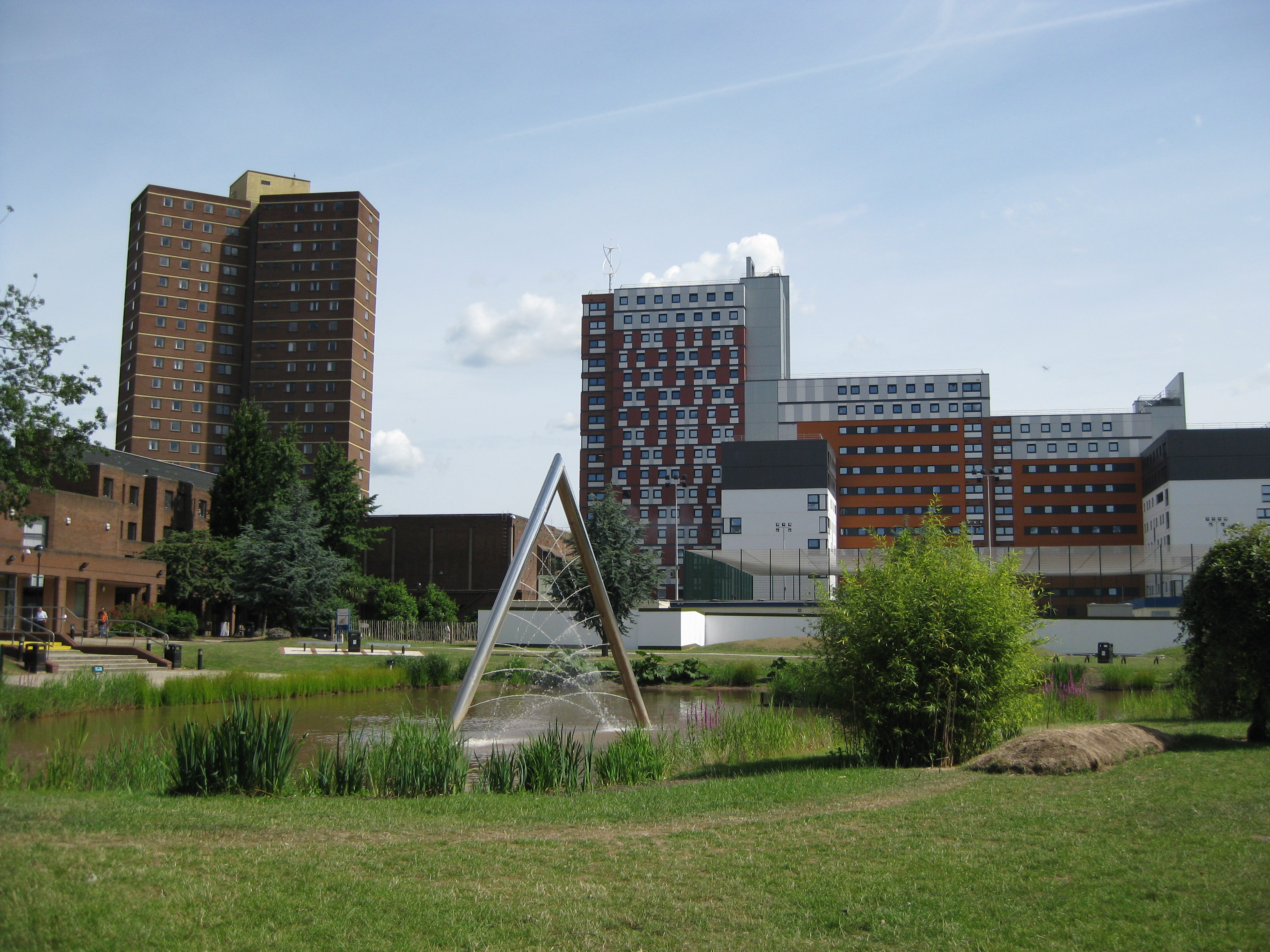 Lake at Aston University, Birmingham, England. Showing Lakeside Conference Centre to left, Dalton Tower student accommodation, Gem Sports Hall (low rise centre) and New Phase 1 student accommodation to right.